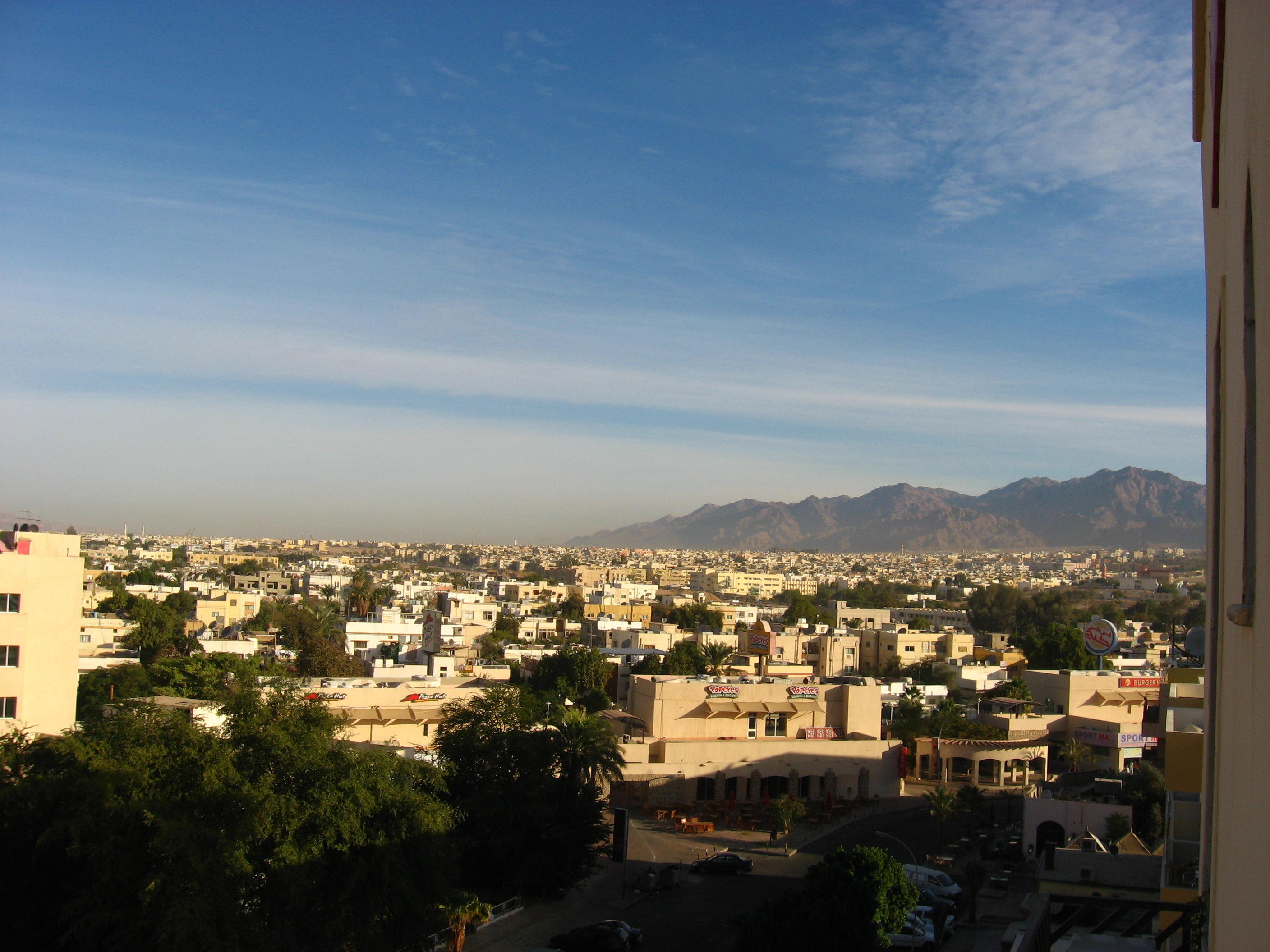 View of Aqaba